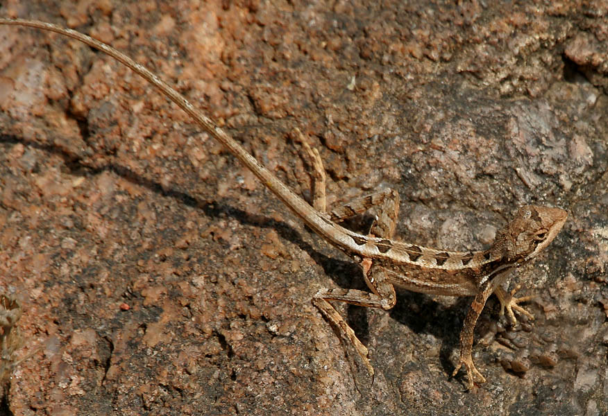 Fan-throated lizard Sitana ponticeriana in Mahavir Harina Vanasthali National Park, Hyderabad, India.